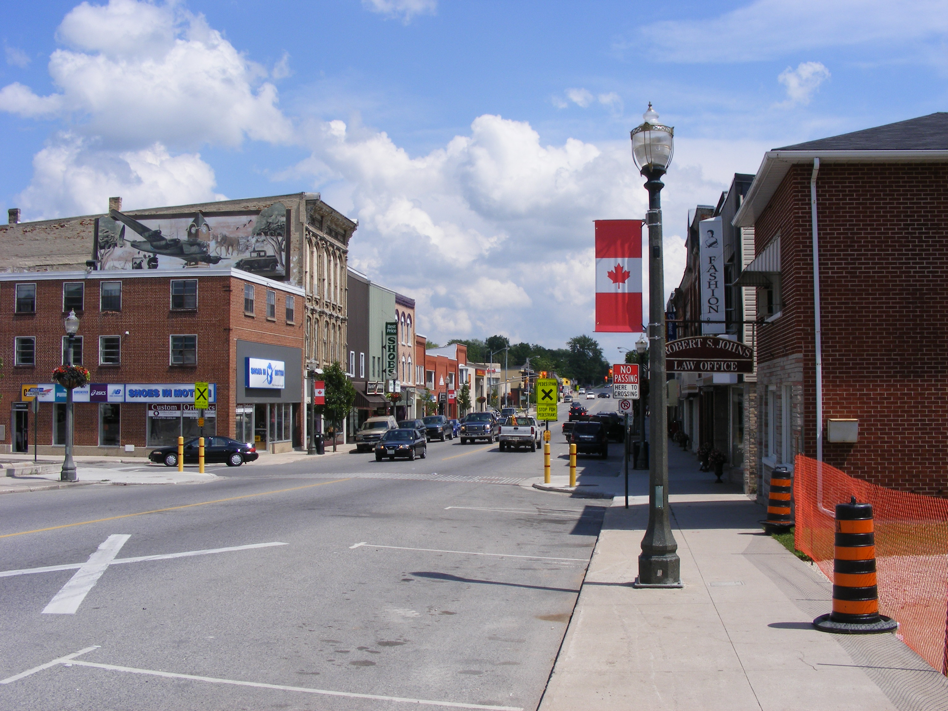 Main Street in Listowel, Ontario. (looking SE)